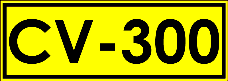 Unknown